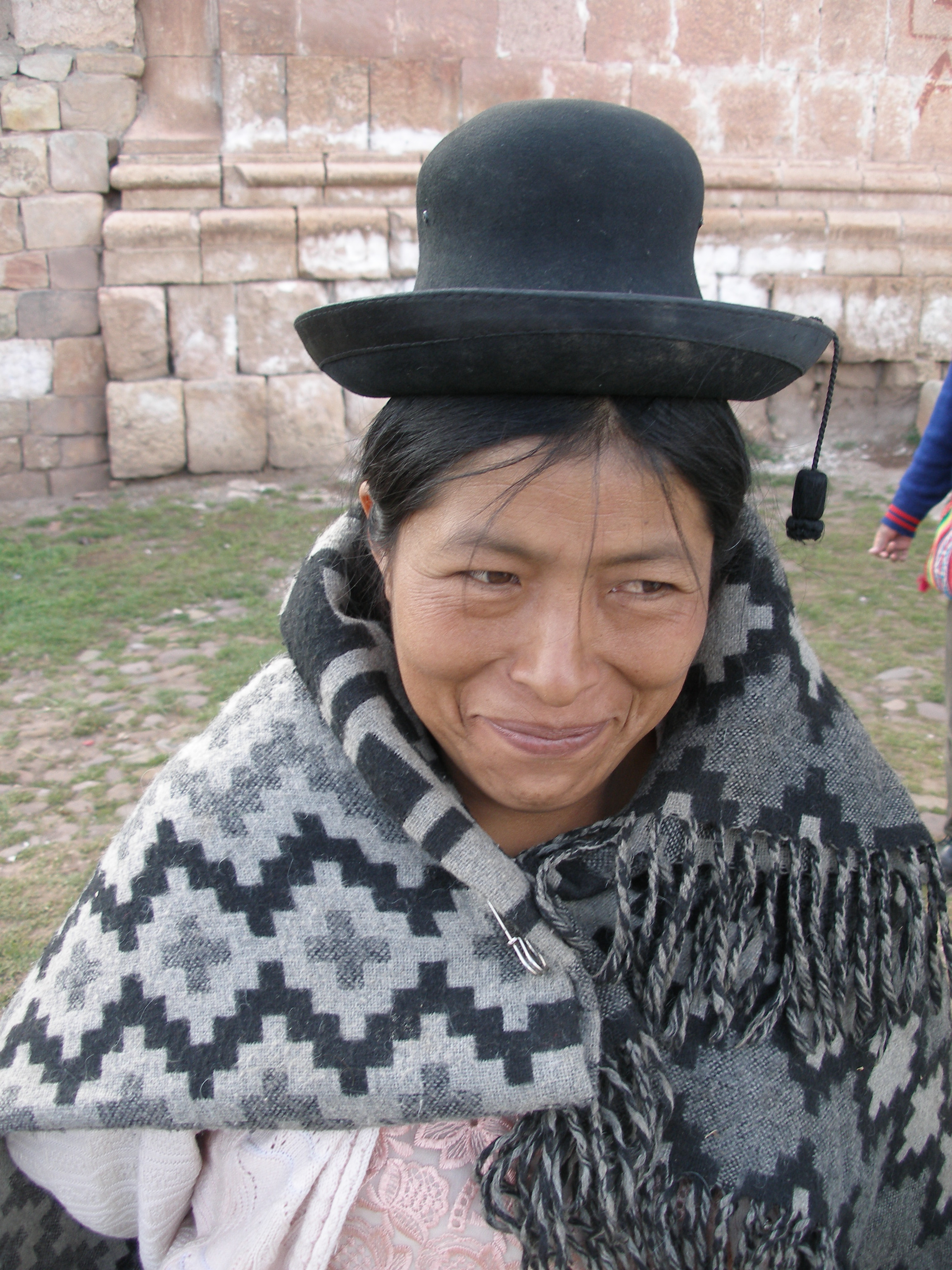 Andean woman in village between Cuzco and Puno, Peru